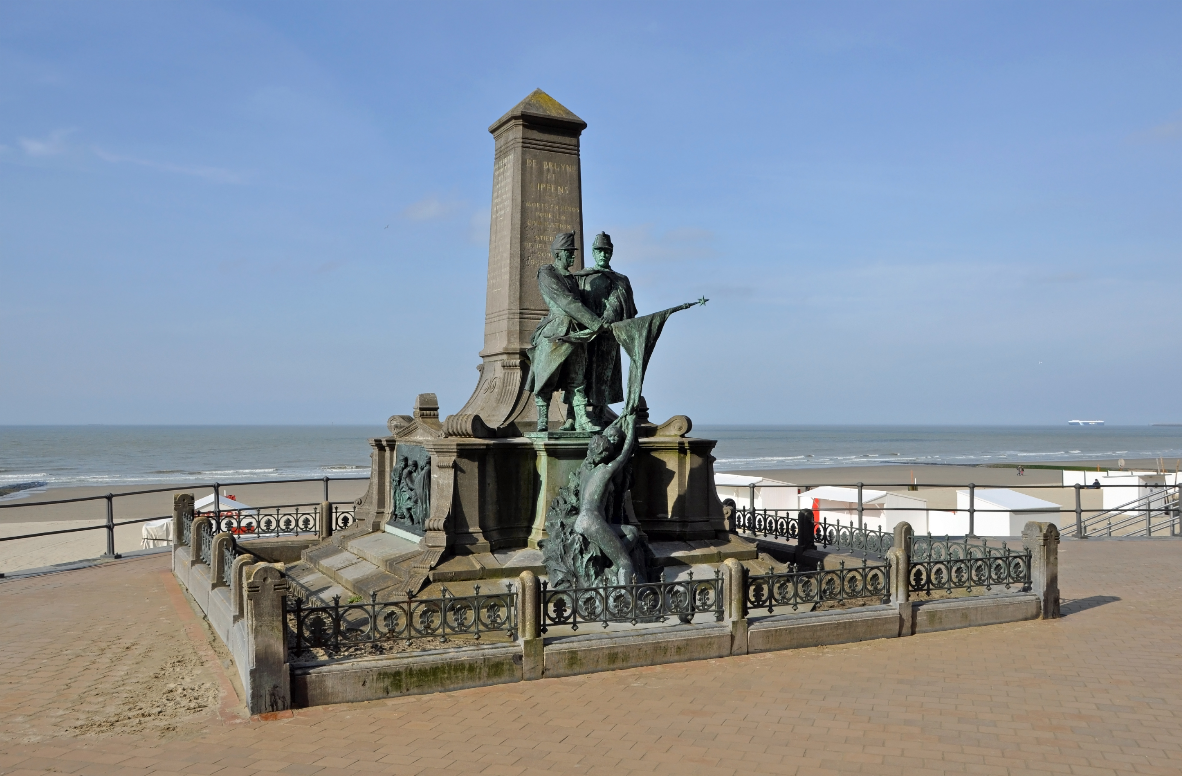 Blankenberge (Belgium): Lippens and De Bruyne memorial